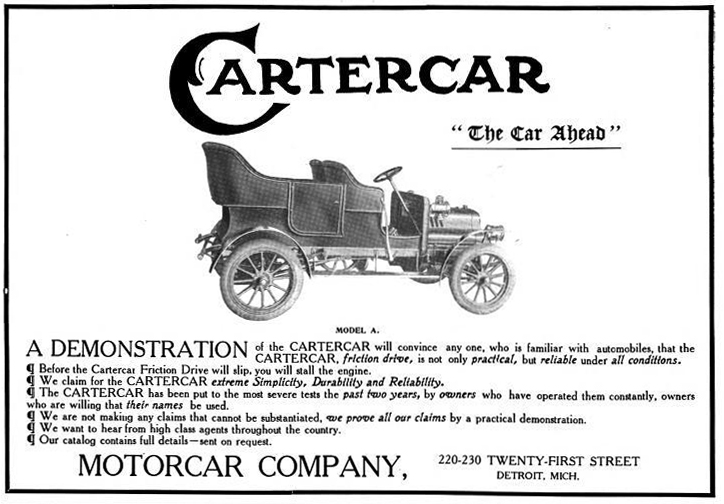 Motorcar Company of Detroit, Michigan - Cartercar - 1906